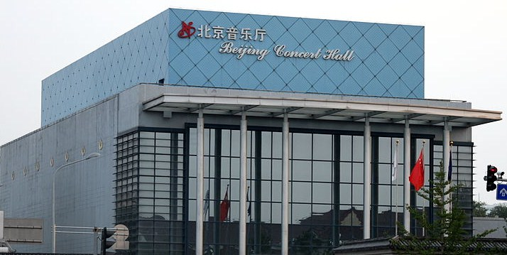 A view of the Beijing Concert Hall.